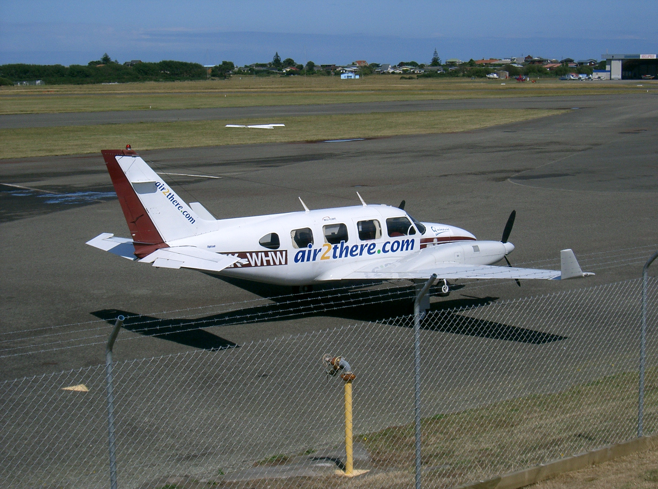 Air2There aircraft at Kapiti Coast Airport (Paraparaumu Airport at this time)